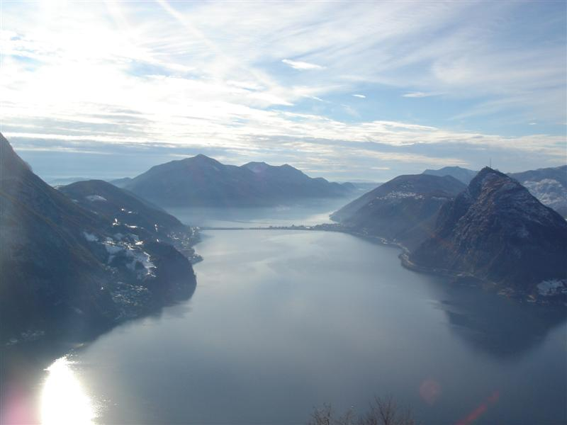 The view from the top of Monte Brè